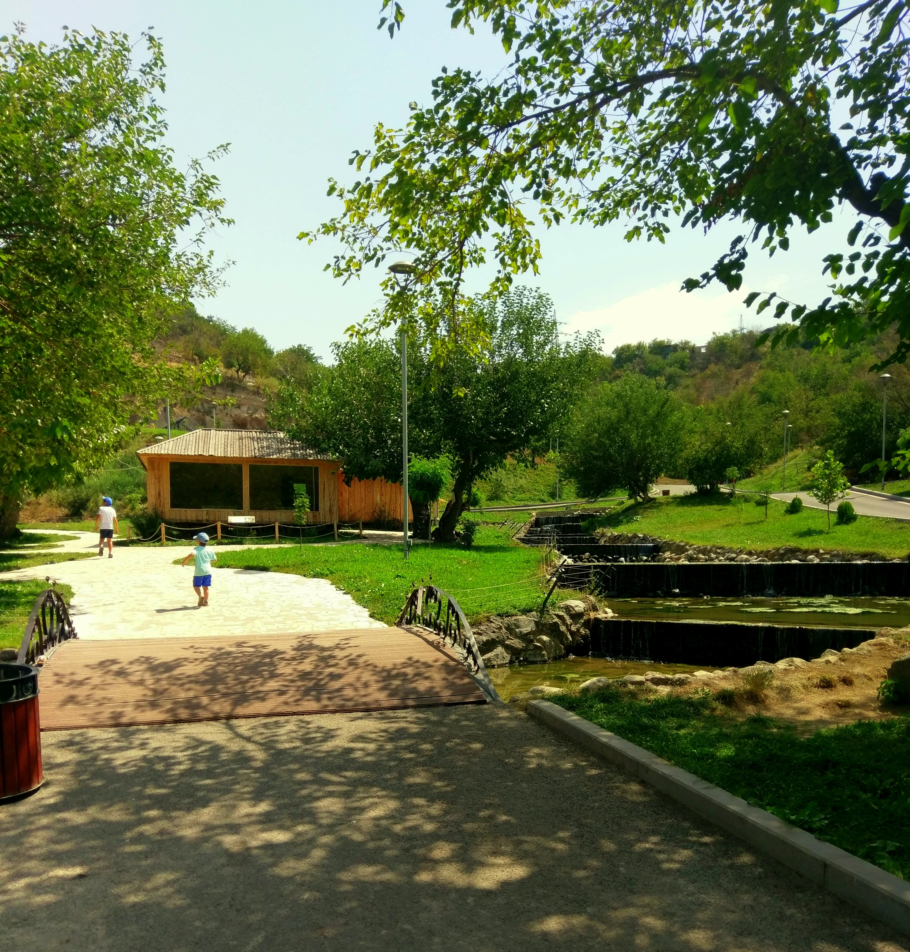 Yerevan Zoo